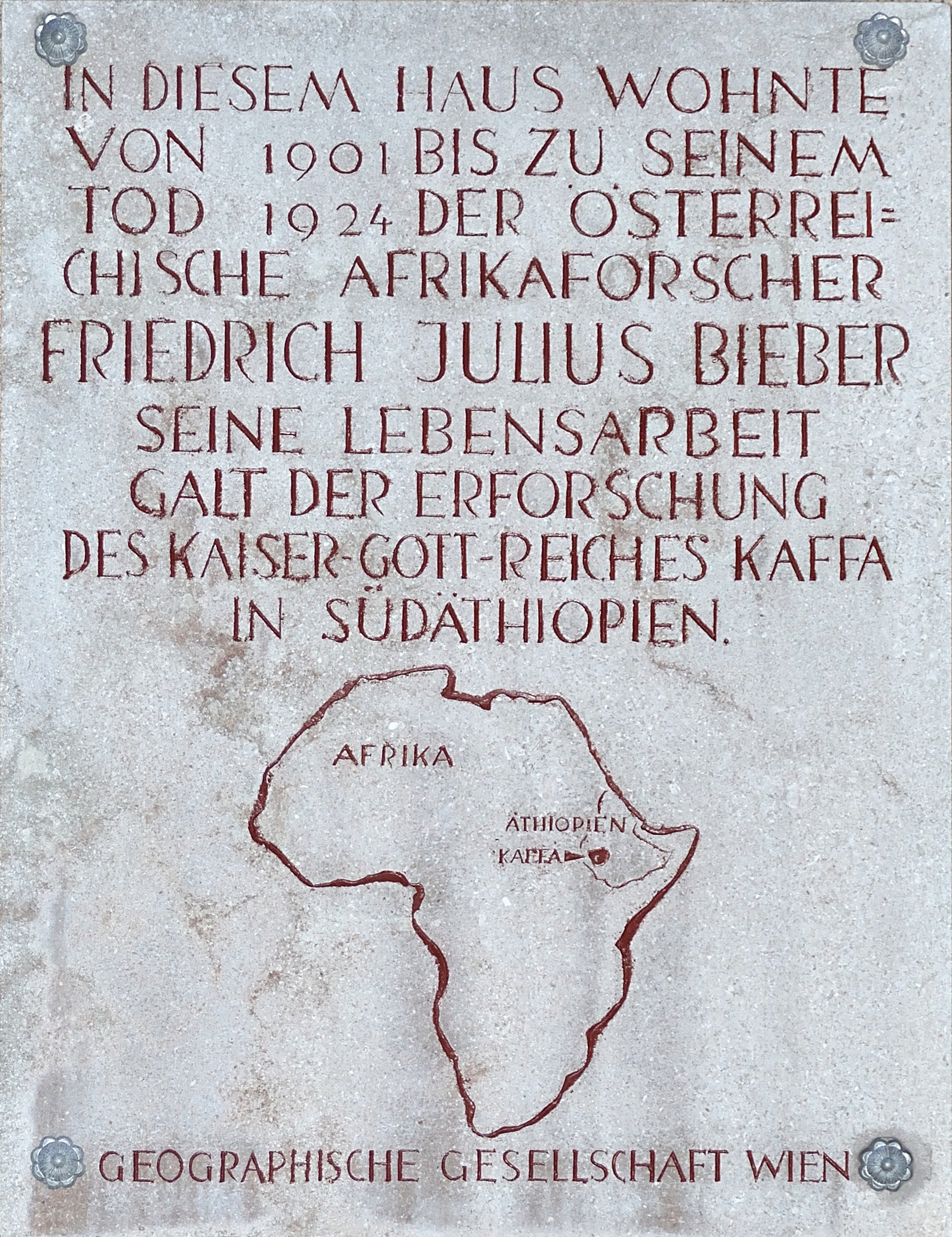 Plaque for the Austrian explorer of Africa, namely the kingdom Kaffa, Friedrich Julius Bieber at Auhofstraße 144 in Hietzing, Vienna